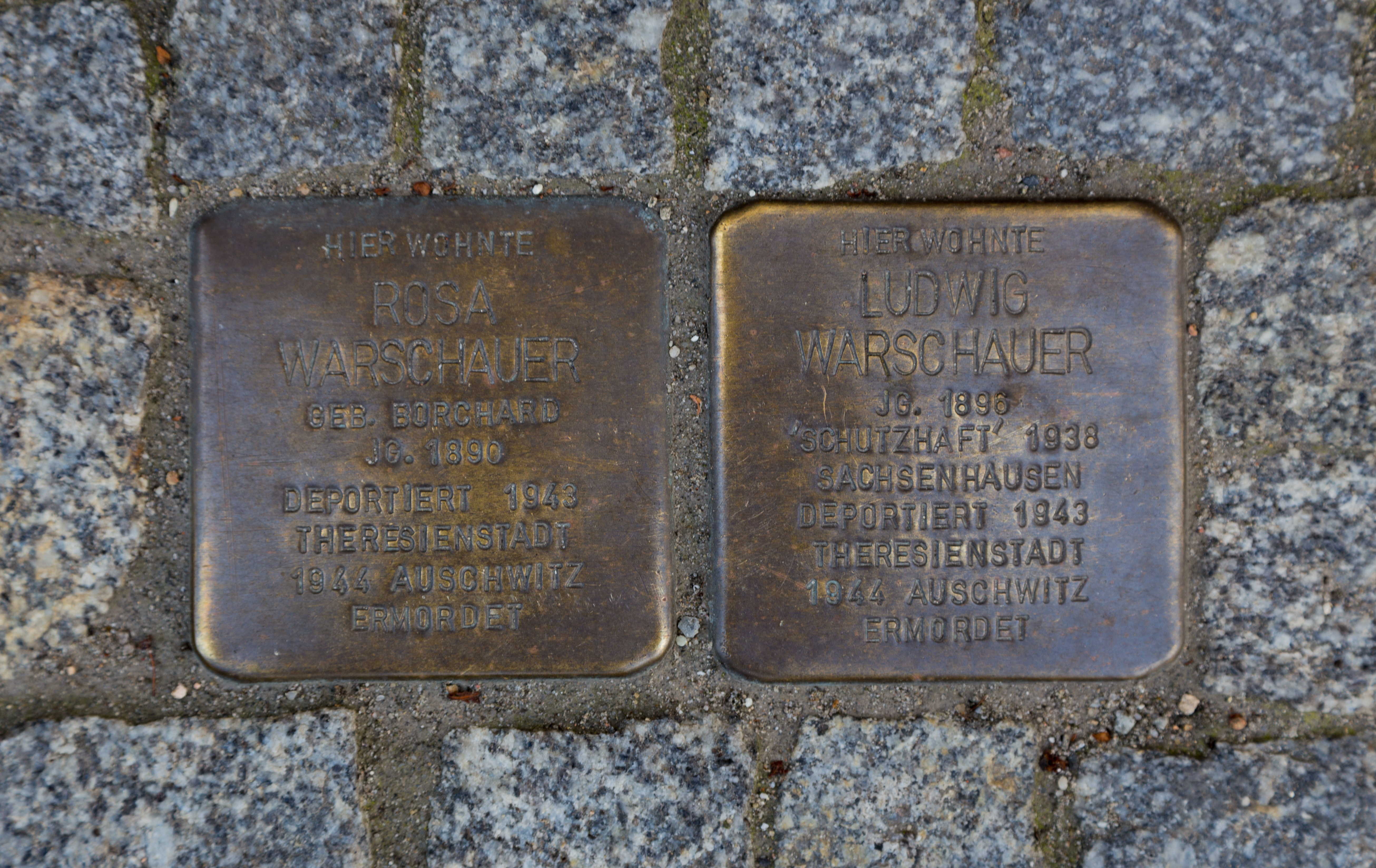 Stolpersteine for Rosa and Ludwig Warschauer at 39 Broad Street (Breite Straße 39) in Beeskow, Landkreis Oder-Spree, Brandenburg, Germany. The laying by German artist Gunter Demnig was in 2014.